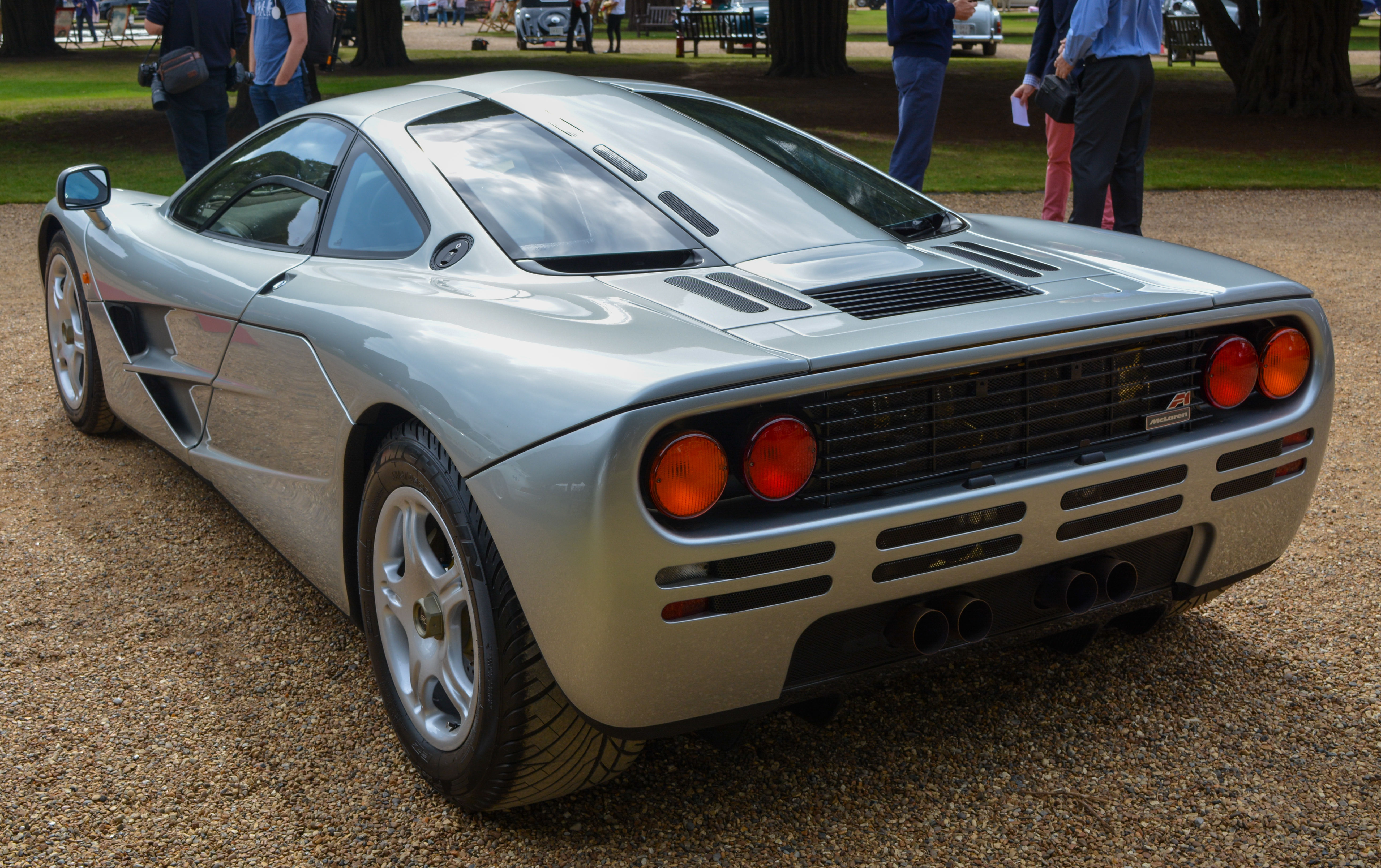 1996 McLaren F1 Chassis No 63 6.1 Rear (Restored and rebuilt by MSO) Taken at the Concours d'Elegance Hampton Court 2019